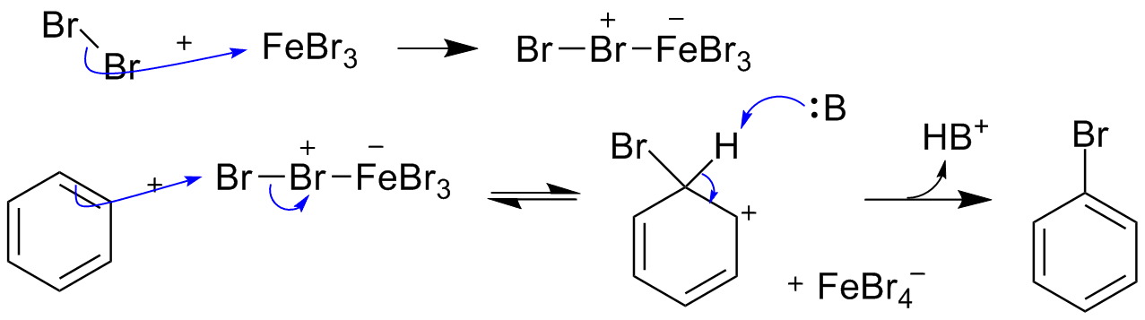 benzene bromination mechanism